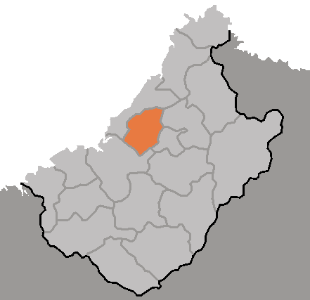 Map of Sijung, Chagang-do, DPRK, 2006